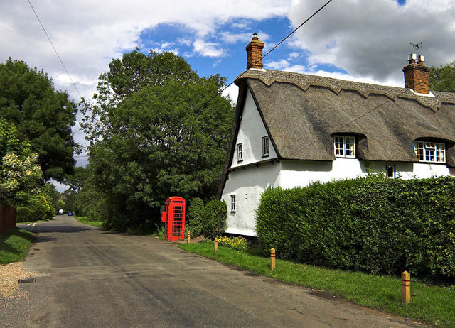 Abington Piggots. One of many Thatched Cottages in the village of Abington Pigotts